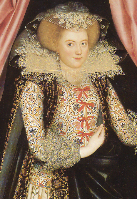 Traditionally called Dorothy Cary, later Viscountess Rochford, c. 1614-1618. Detail of Larkin cary.jpg. For commentary on sitter and dating, see Sir Roy Strong, "The Surface of Reality", FMR No. 61, April 1993.